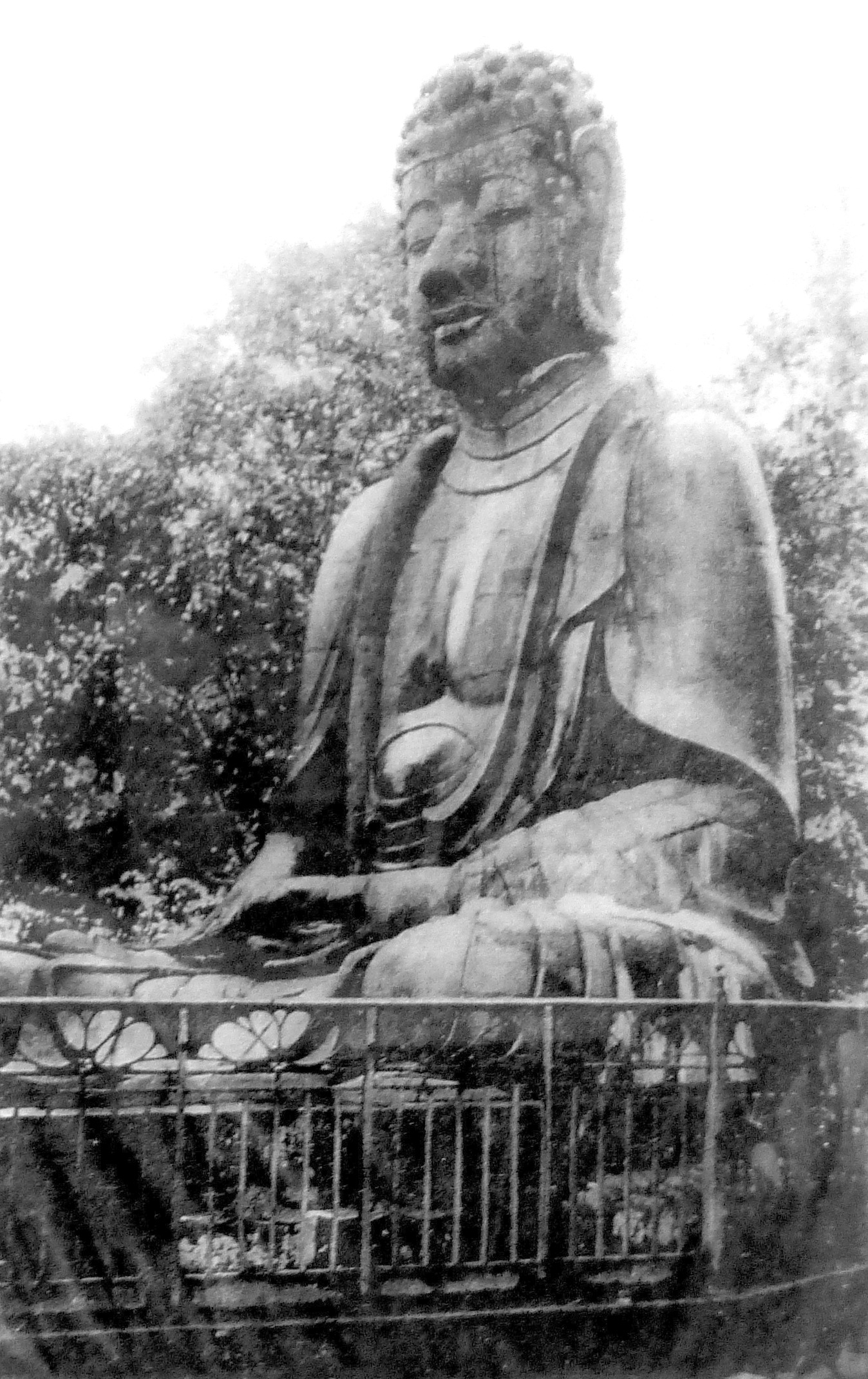 Ueno Daibutsu in Taisho era